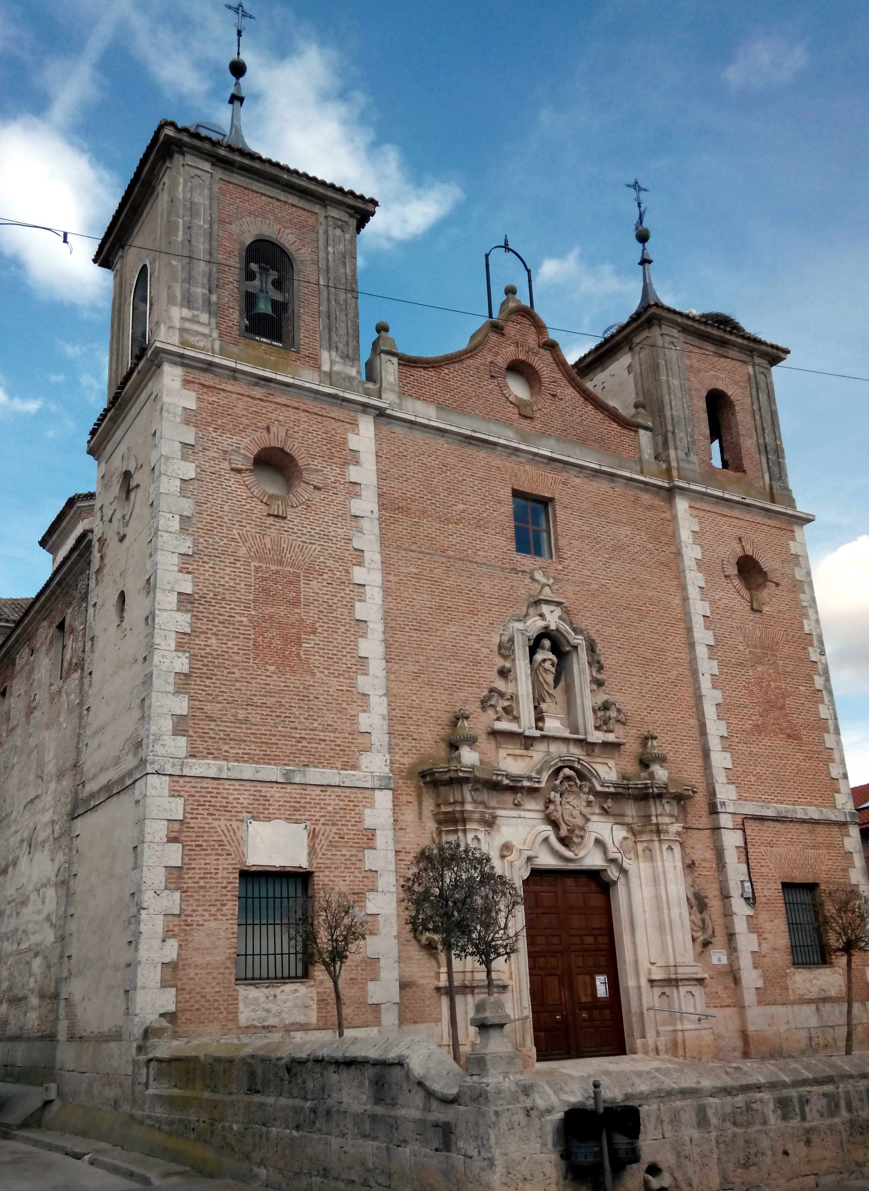 Church in Renedo de Esgueva, Valladolid, Spain.